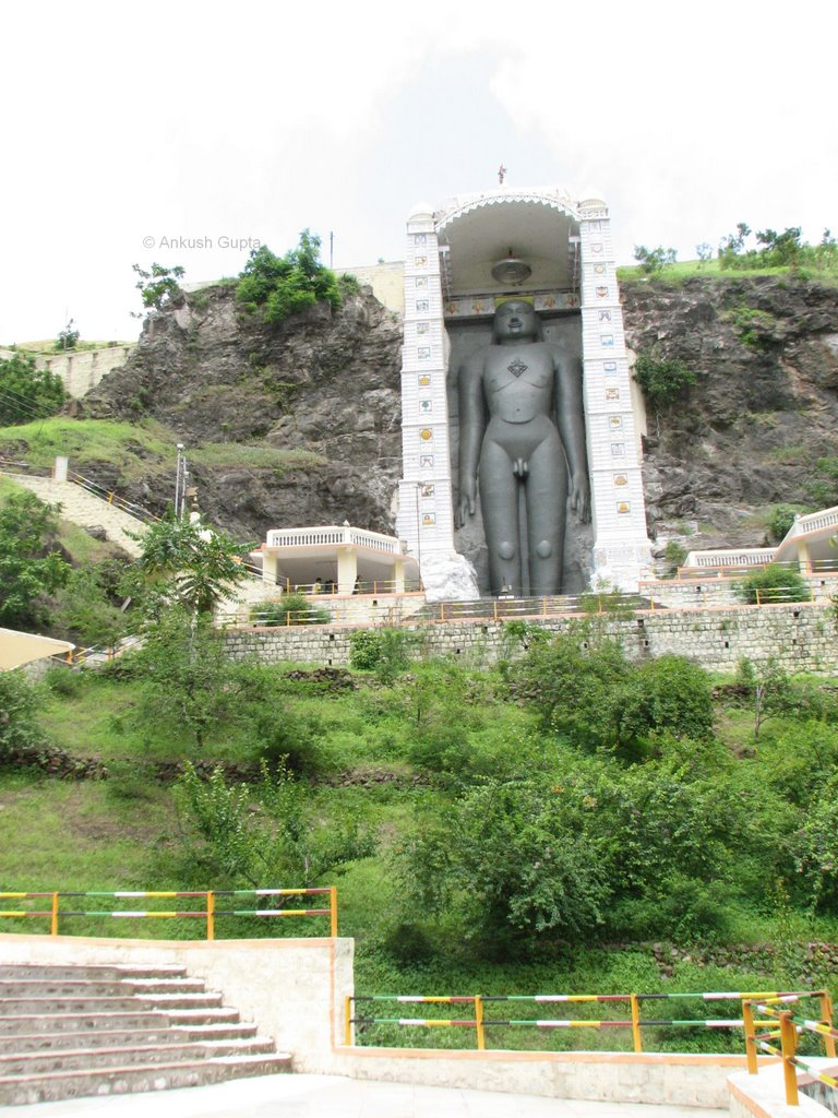 The tempe of Mahavira in Barwani